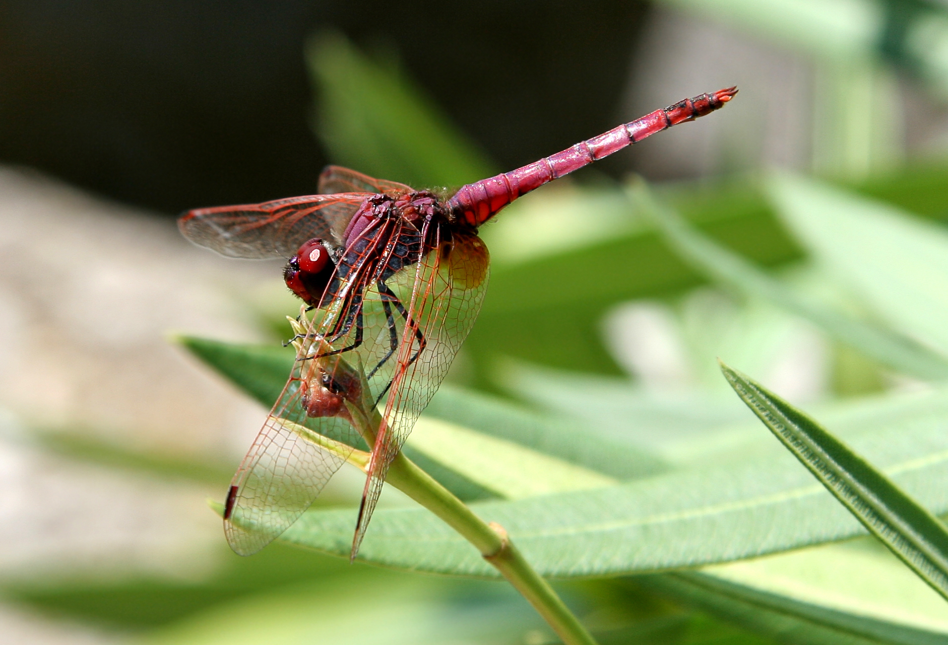 Trithemis annulata (male).